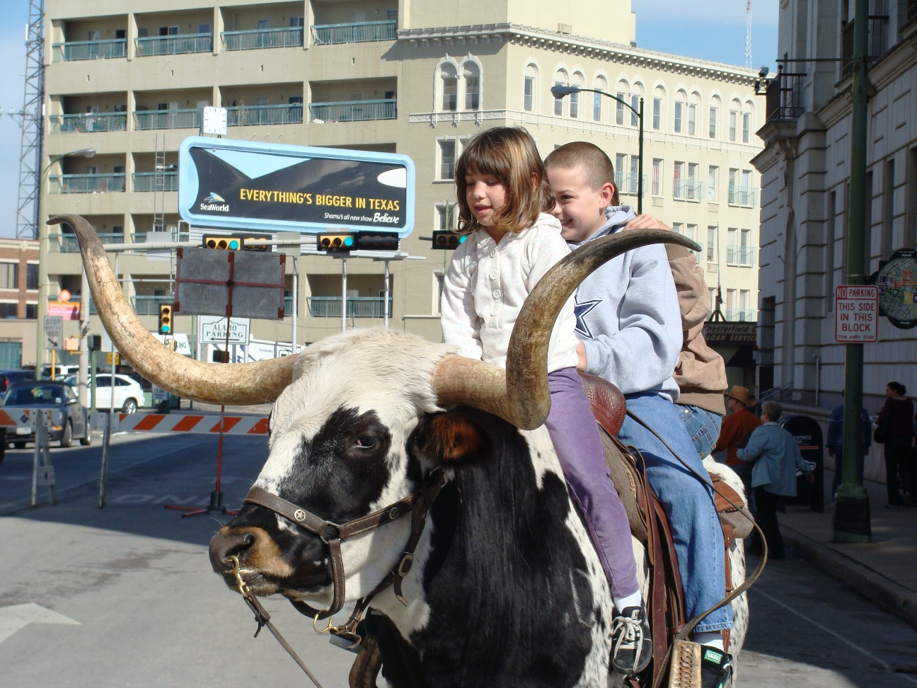 A Texas Longhorn, in San Antonio, Texas